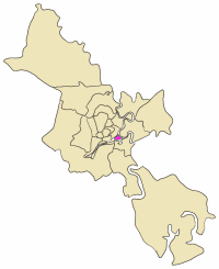 position of district 4 in an outline of the metropolitan area of HCMC (Ho Chi Minh City, Vietnam) - ISO code VN-F-HC. Keywords: map, outline, city, Ho Chi Minh City, HCMC, HCM, district 4, quan 4.